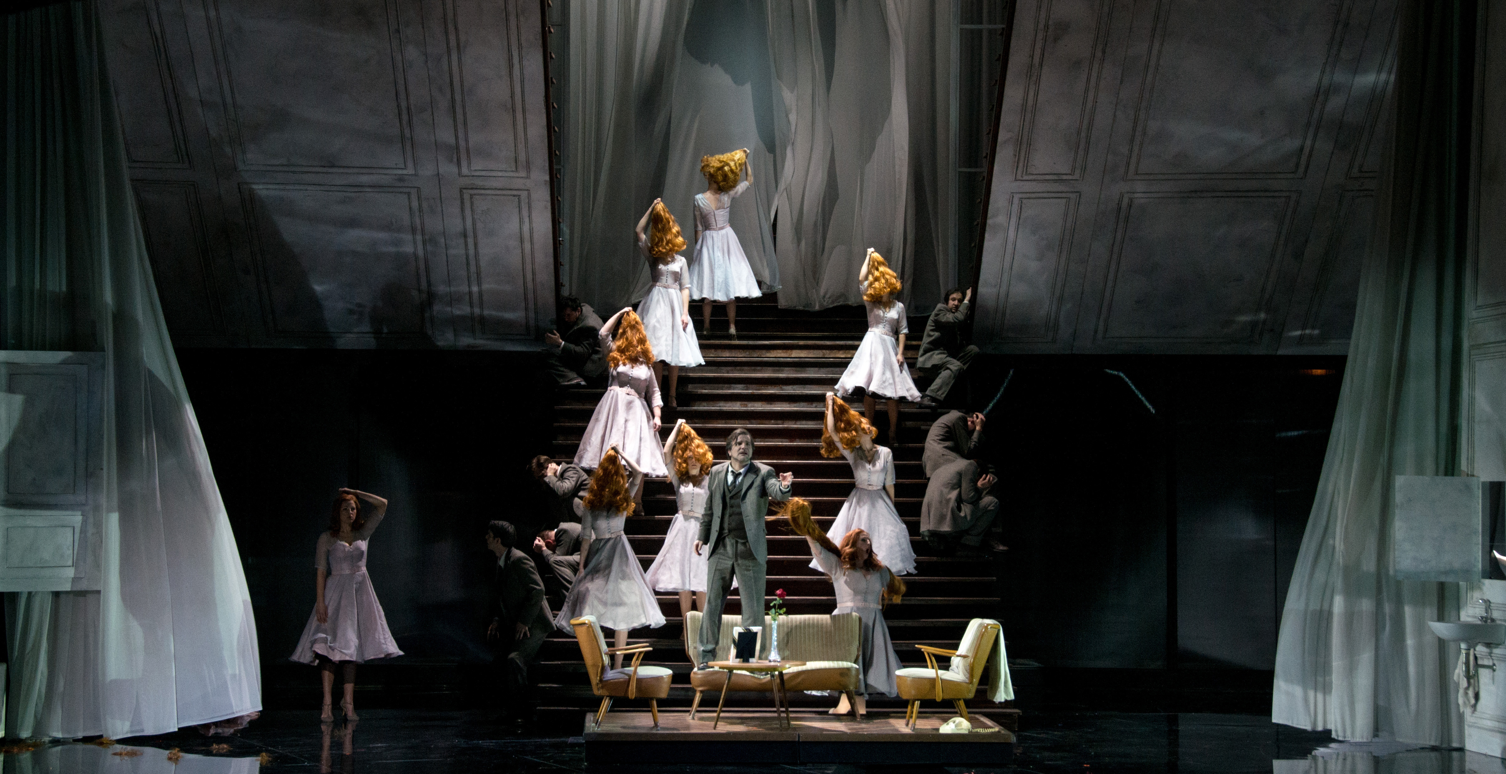 Graz Opera House